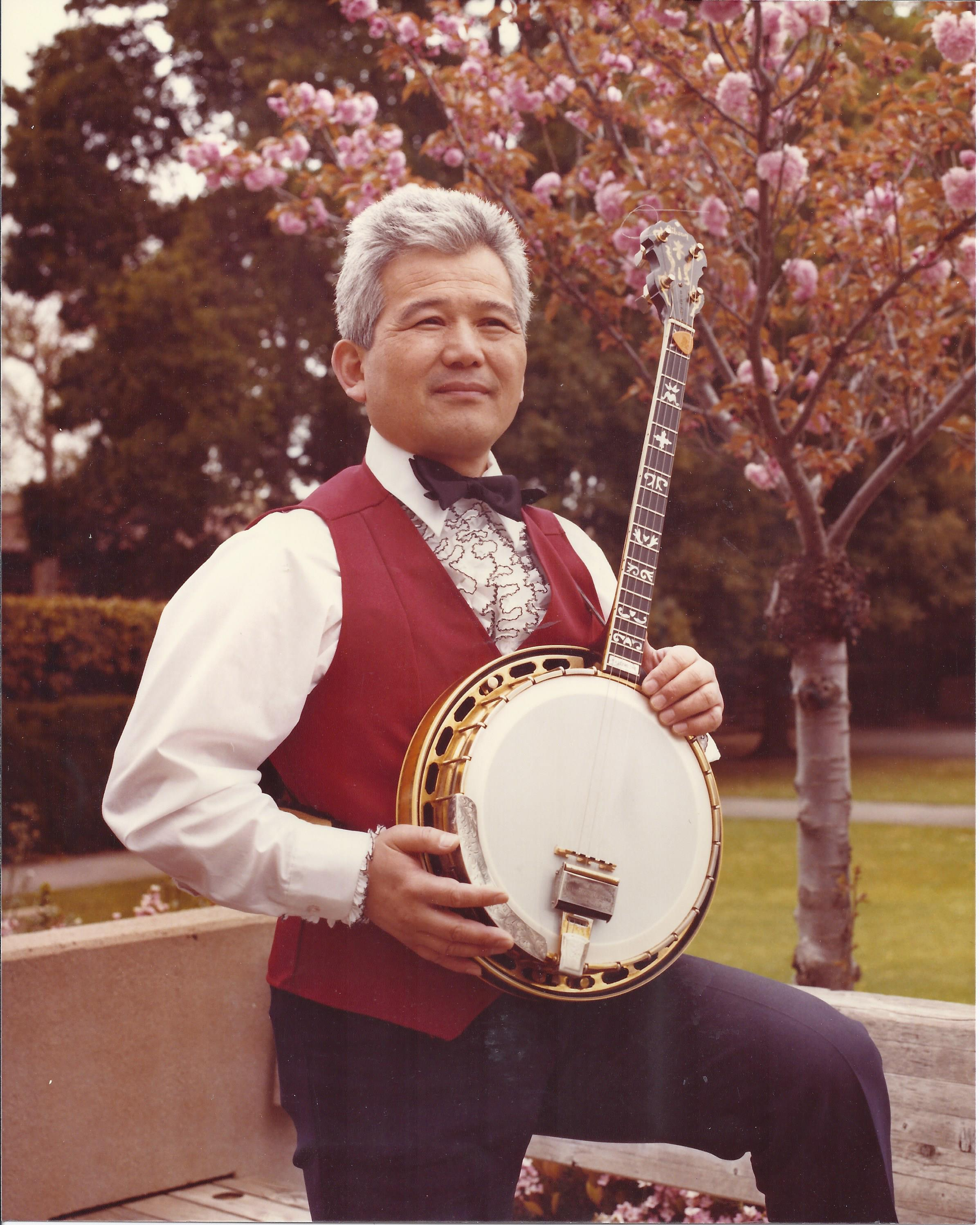 musician and banjoist Charlie Tagawa circa 1985